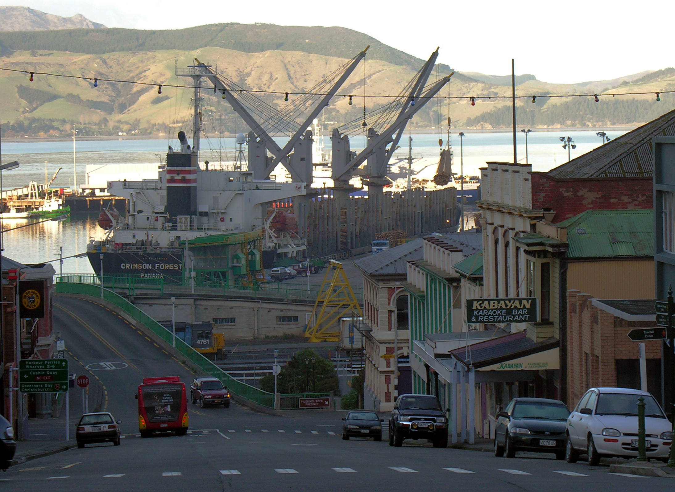 A southerly aspect down Oxford Street, across Norwich & Sutton Quays to No.2 Wharf, where the bulk log carrier Crimson Forest is loading. The Kabayan Restaurant building is a rare survivor from just after the 1870 Great Fire of Lyttelton. Below it on the NW corner of Norwich Quay is the vacant 3rd Canterbury Hotel building to occupy this site. IMO Number: 9206140 MMSI Number: 357530000 Callsign: 3FLM9 Length: 177 m Beam: 28 m